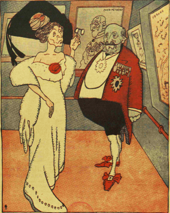 Caricature in Furnica, the Romanian satirical magazine, showing art collector Ioan "Iancu" Kalinderu welcoming novelist and socialite Maica Smara in his incipient Bucharest museum of art. Both of them were favorite figures of ridicule in Furnica, owing to their snobbery; here, Kalinderu is shown displaying canvasses by Costin Petrescu (the caricature of Kalinderu and Smara's patron King Carol I, in the background) and Arthur Verona. In the original caption Smara asks to see pictori flamanzi ("Flemish painters"), and Kalinderu answers that all those on display are pictori flămânzi ("starving painters").